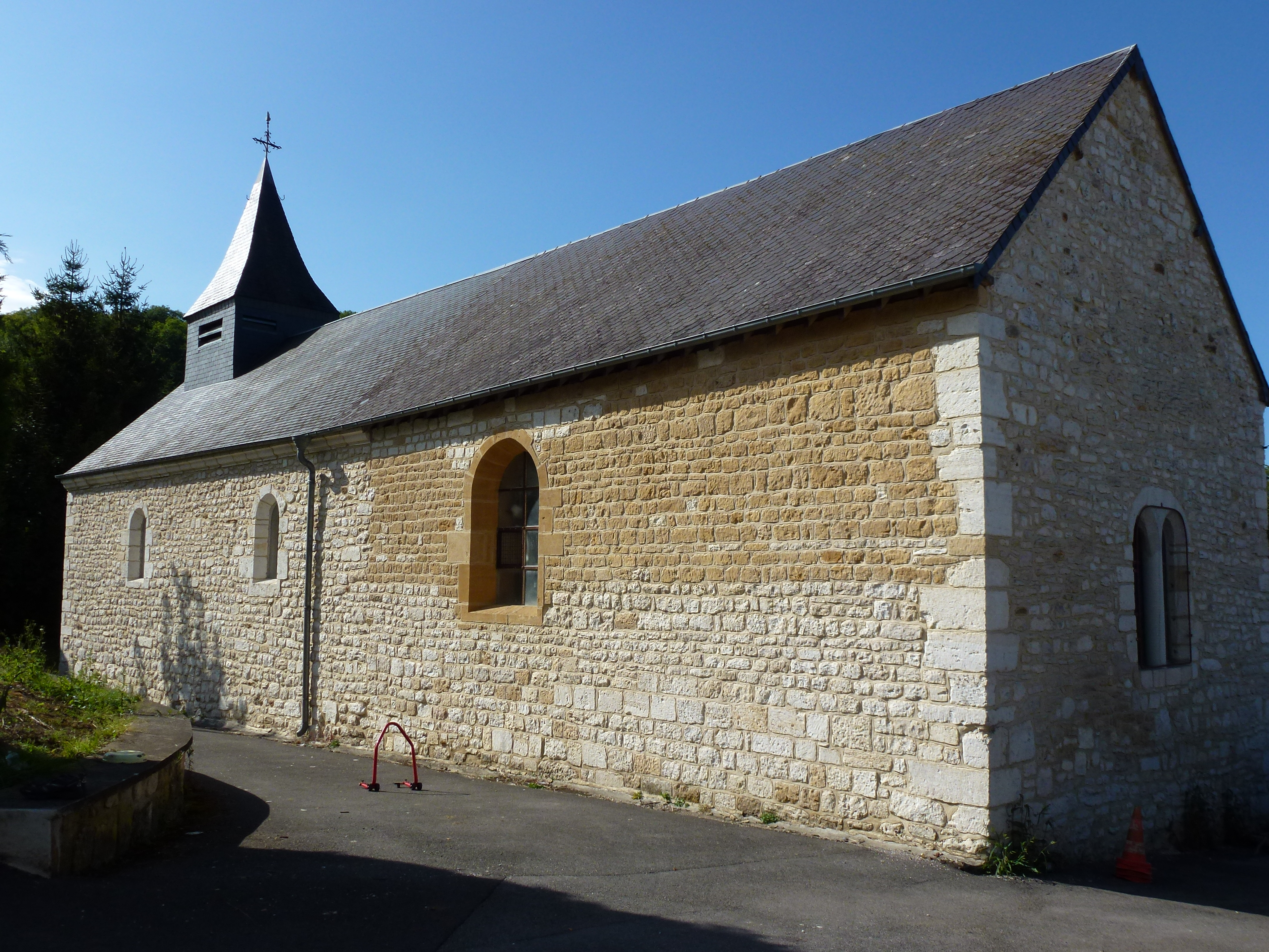 Lépron-les-Vallées (Ardennes) église